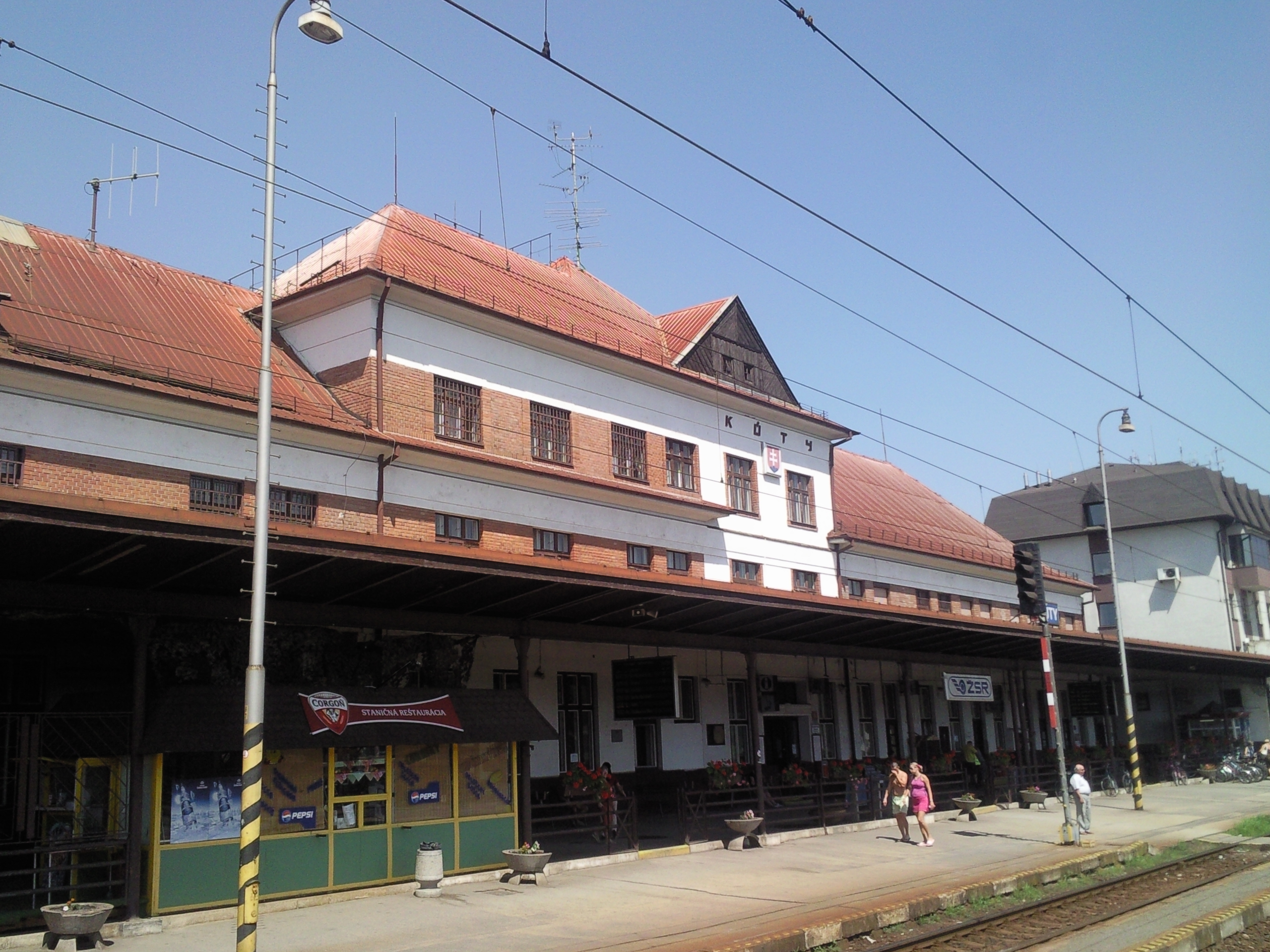 Railway station in Kúty, Slovakia